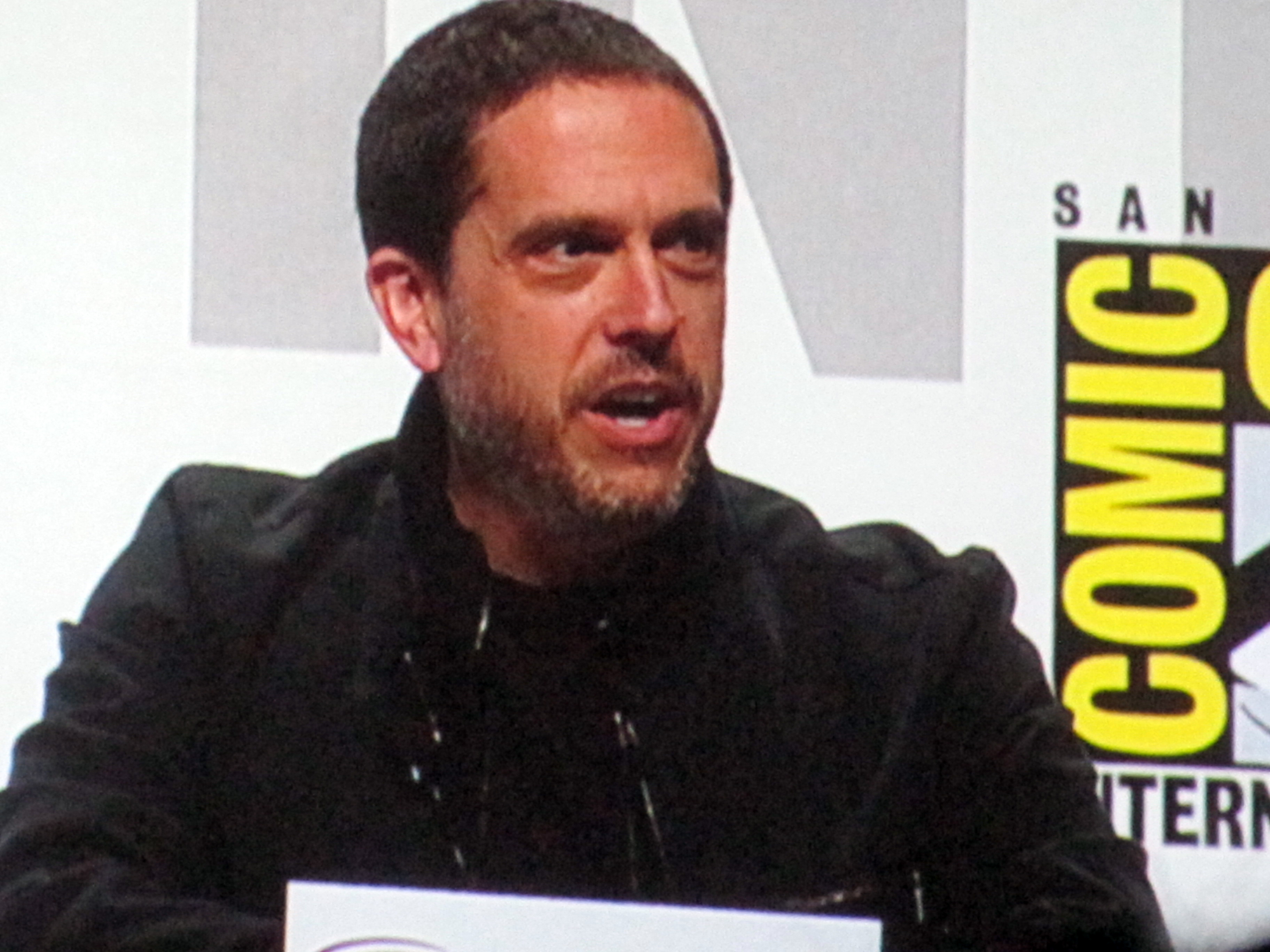 Director Lee Unkrich participating in the Toy Story 3 panel at WonderCon 2010.